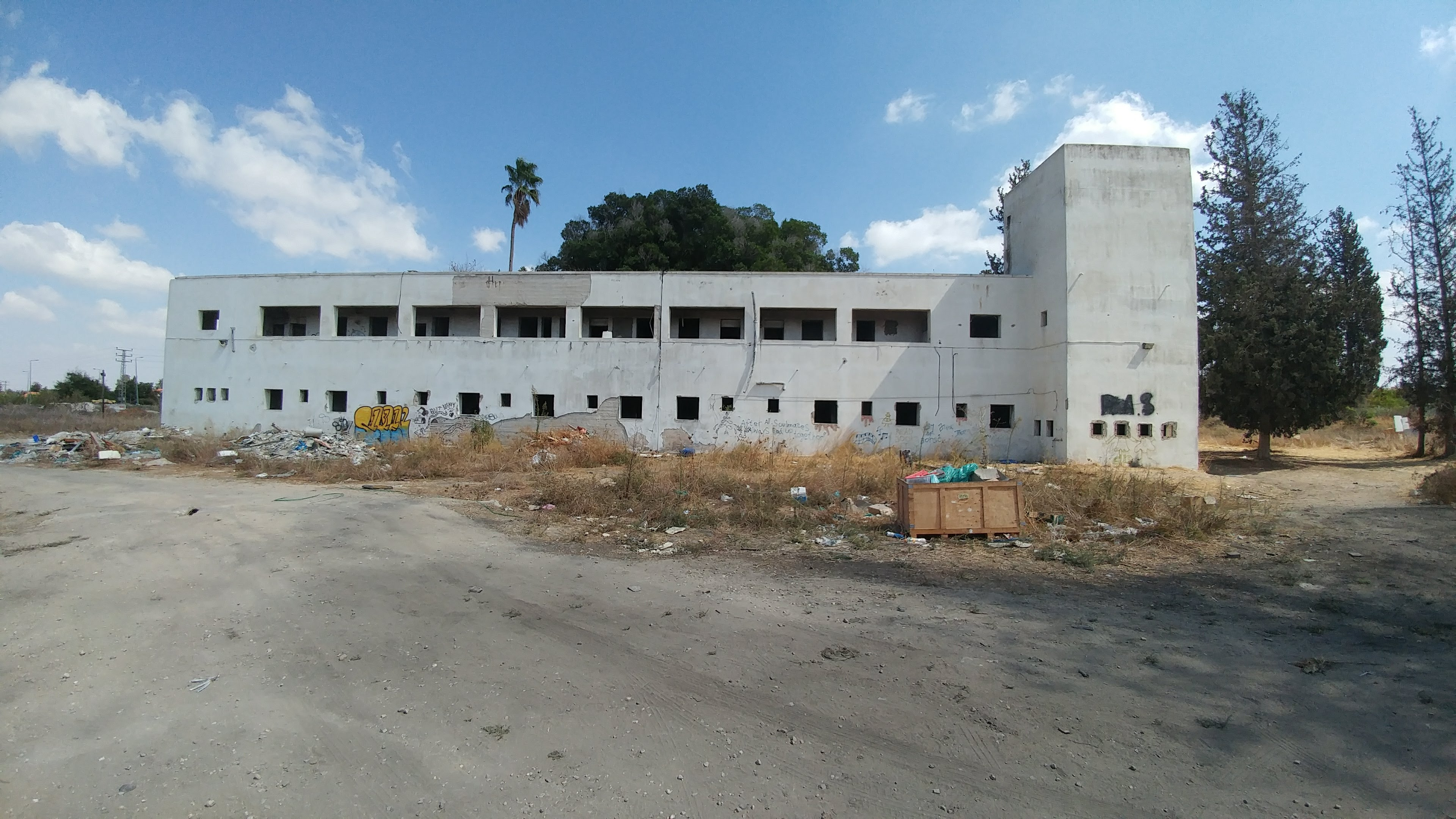 The western side of the Qatra police station